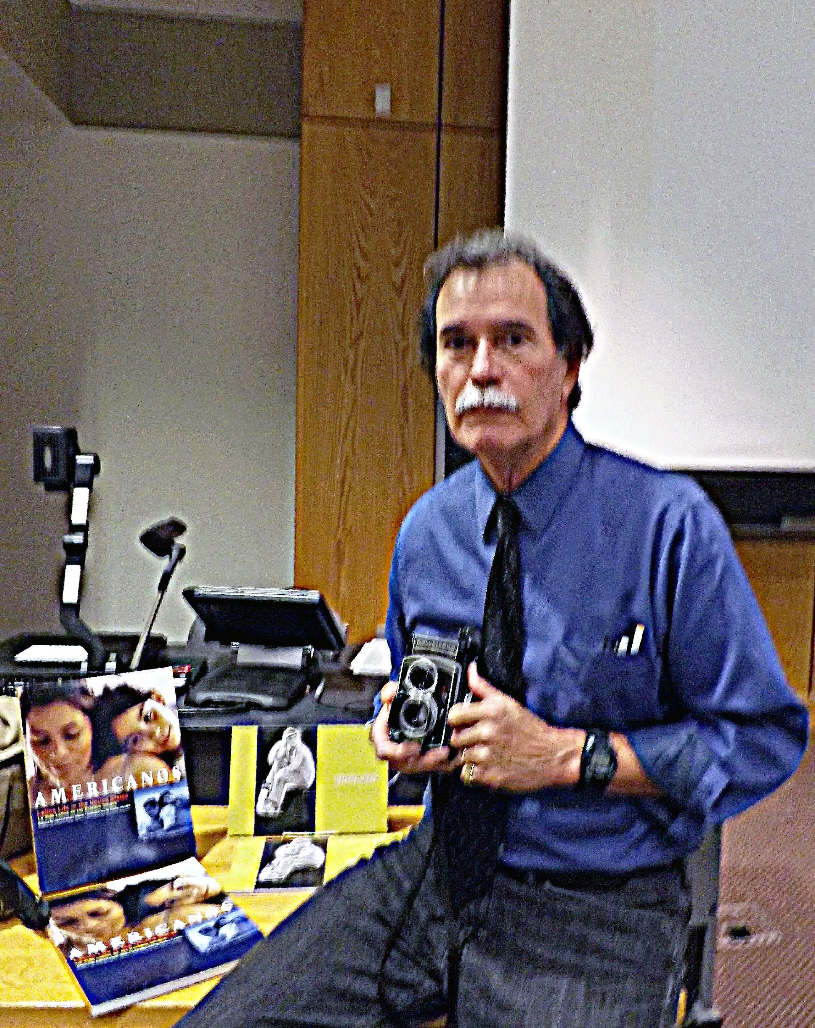 José Galvez speaks at the University of Southern Indiana with his camera, equipment and books in the background.